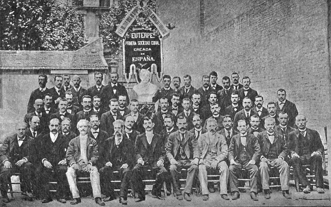 La Societat Coral Euterpe, in Barcelona cómica magazine of 21/7/1894